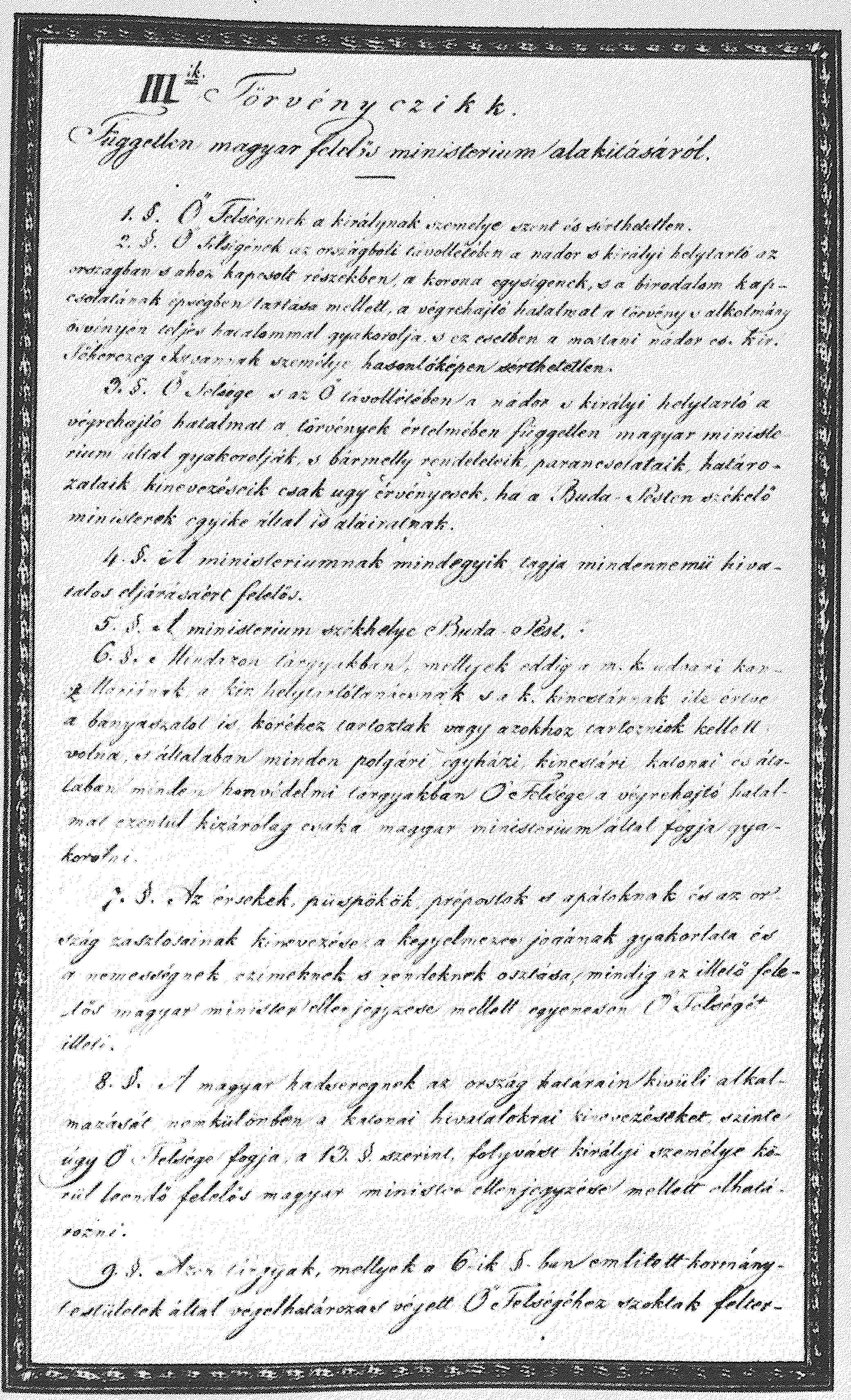 First page (§ 1-9) of the 3. act of the 'April laws' of Hungary, codified in april 1848. contains info on the independent Hungarian government.